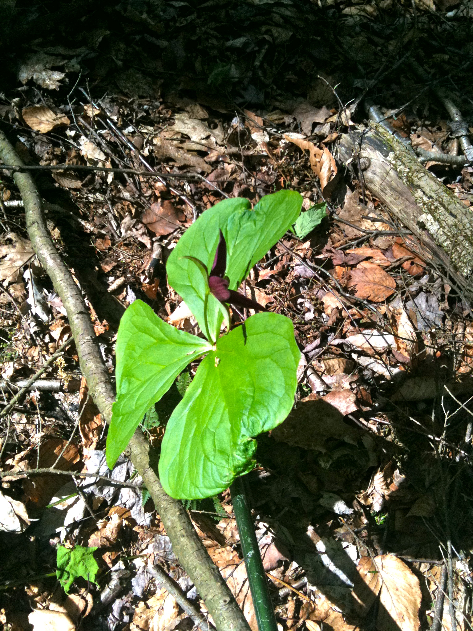 Jericho Blue-Blazed Trail. Wildflower on Jericho Trail.